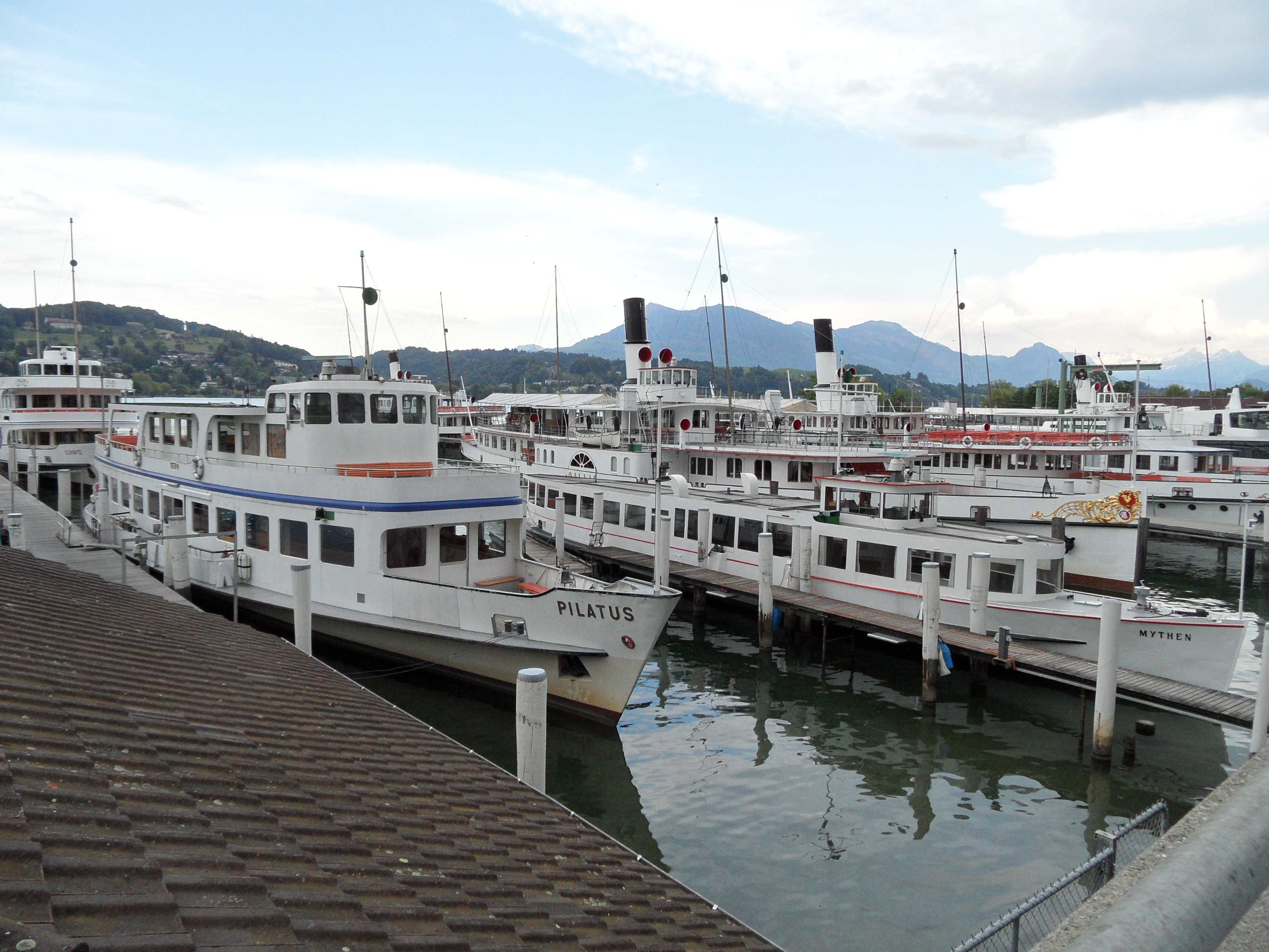 Motor ships "Pilatus" and "Mythen" in Lucerne, 30 April 2011. Visible as well: Motor ship "Schwyz" (behind "Pilatus"), steamers "Stadt Luzern" (small chimney in the background, behind "Pilatus"), "Gallia", "Schiller", and "Unterwalden" (other steamer chimneys from left to right).